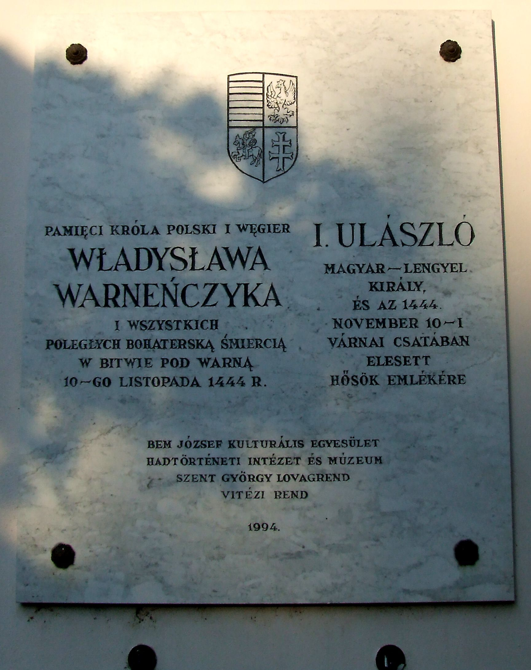 Memorial tablet of Władysław III in the Military History Museum, Buda Castle.